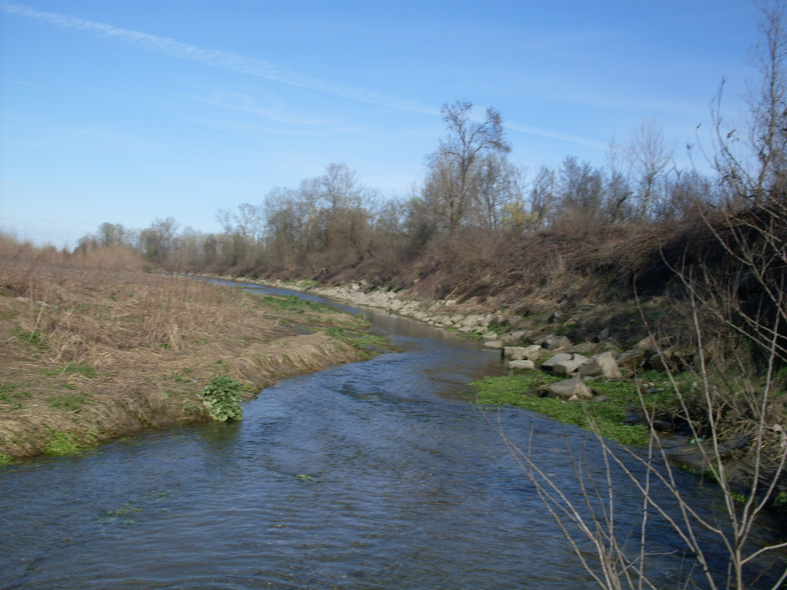 Po river in Cavagnolo.